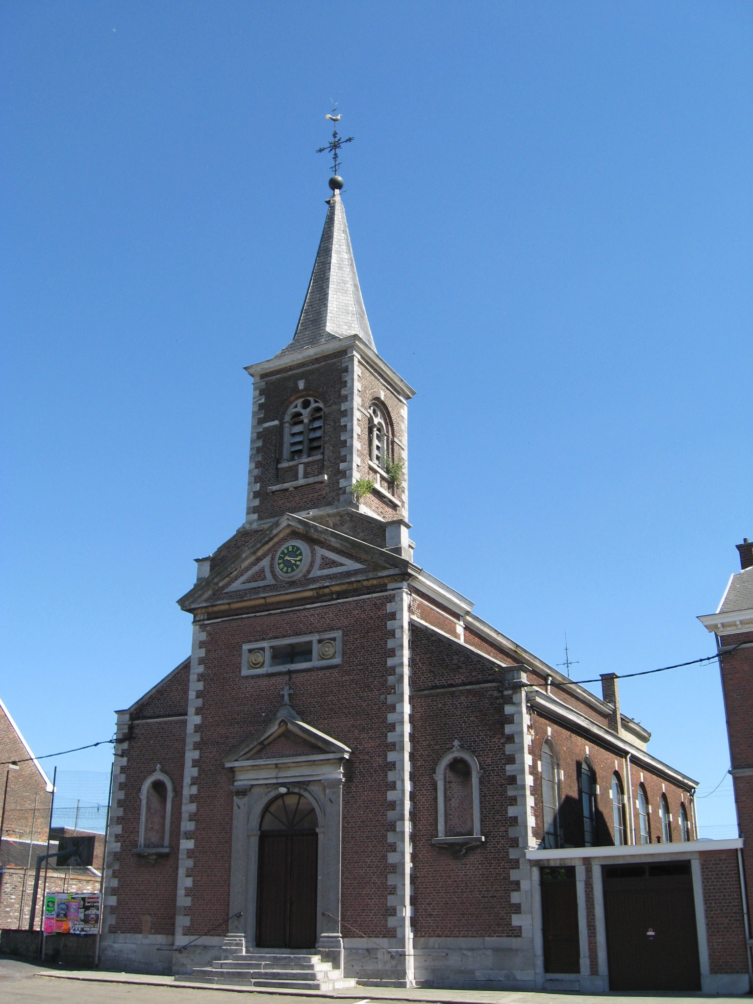 Church of Saint Peter in Grand-Rechain, Herve, Liège, Belgium